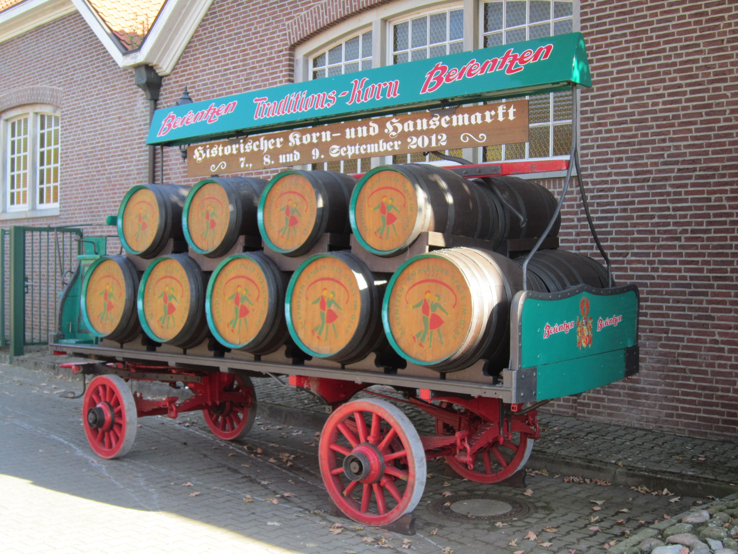 Historical "Korn- und Hansemarkt" Haselünne